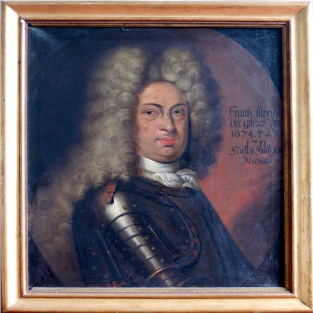 Portrait of Franz Alexander of Nassau-Hadamar